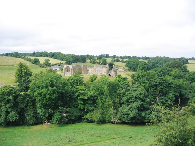 Egglestone Abbey, view of the Abbey facing south from Newgate Westwick Road leading into Barnard Castle. In the foreground between the trees is the River Tees.